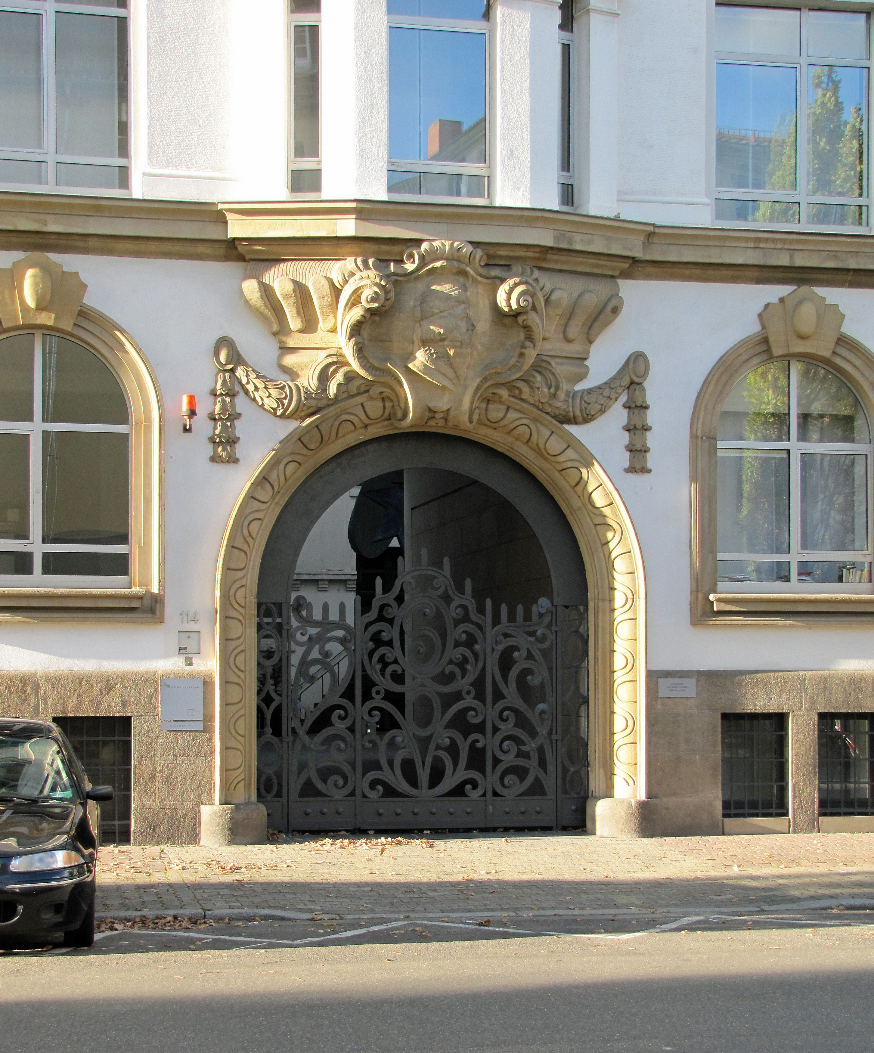 Entrance of publishing house "S. Fischer", in Frankfurt am Main, Germany.